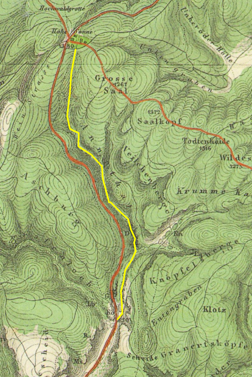 A historical Map of Eisenach.